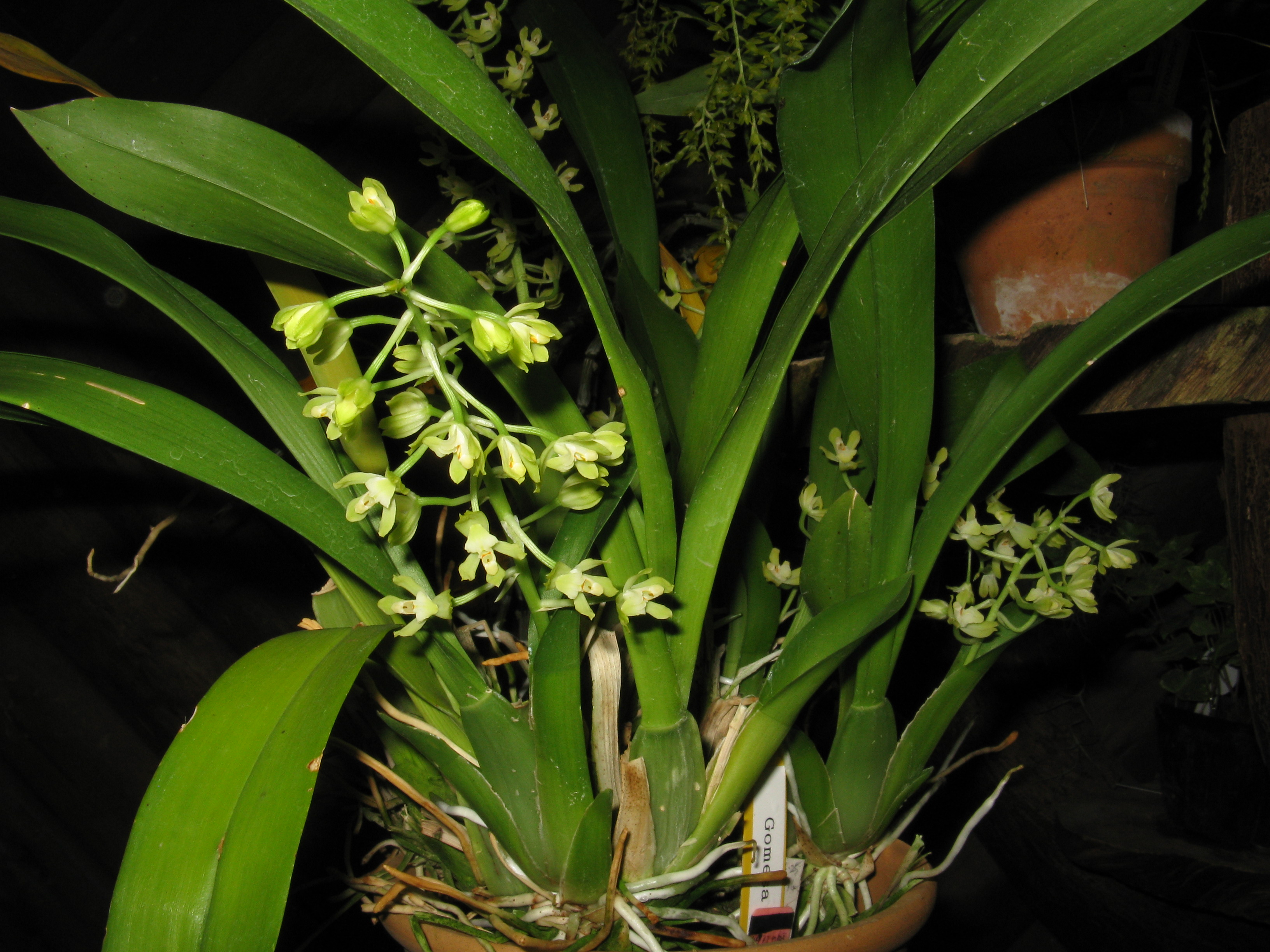 Scientific name Gomesa recurva Place:Osaka Prefectural Flower Garden,Osaka,Japan